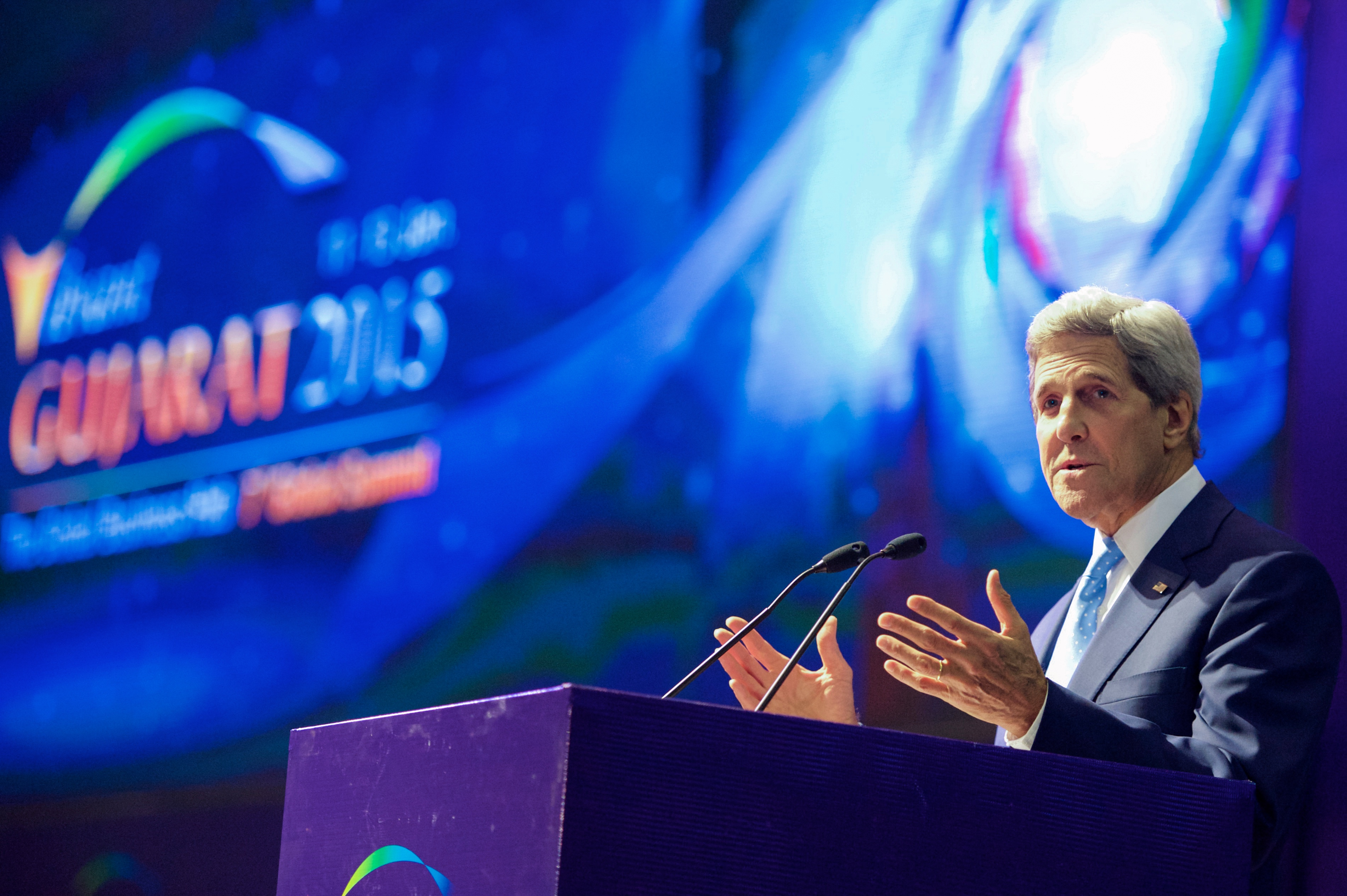 U.S. Secretary of State John Kerry addresses an audience including Indian Prime Minister Narendra Modi, United Nations Secretary-General Ban Ki-moon, and World Bank President Jim Yong Kim as he delivered remarks at the opening plenary session of the 7th Vibrant Gujarat Summit in Gandhinagar, India, on January 11, 2014. [State Department photo/ Public Domain]